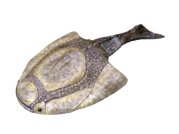 Life reconstruction of Psammolepis venyukovi